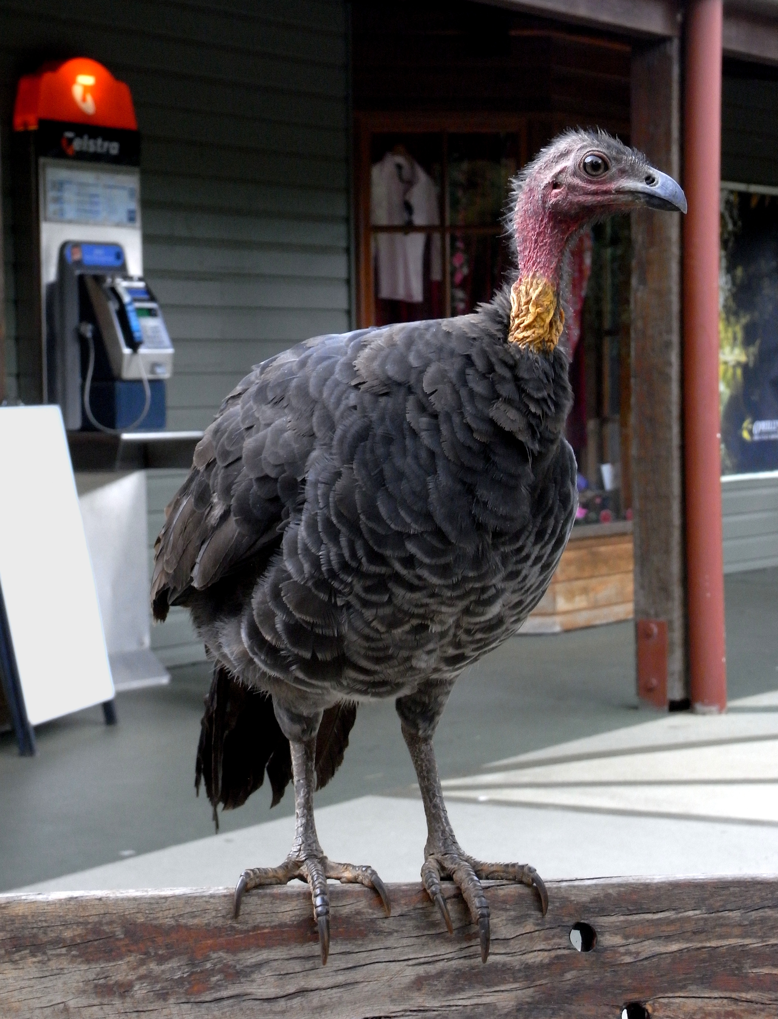 Australian Brush Turkey (Alectura lathami) standing on a wooden bench in the picnic area at O'Reilly's, Lamington National Park, Queensland, Australia.